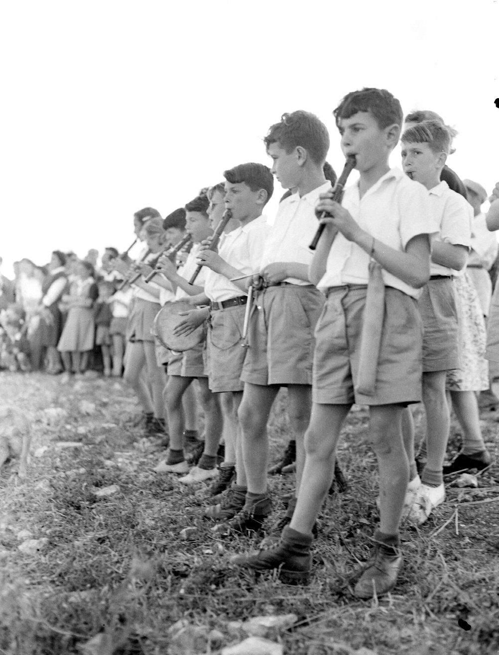 Yankees considered education very much the study of music. Most children learned to play the flute